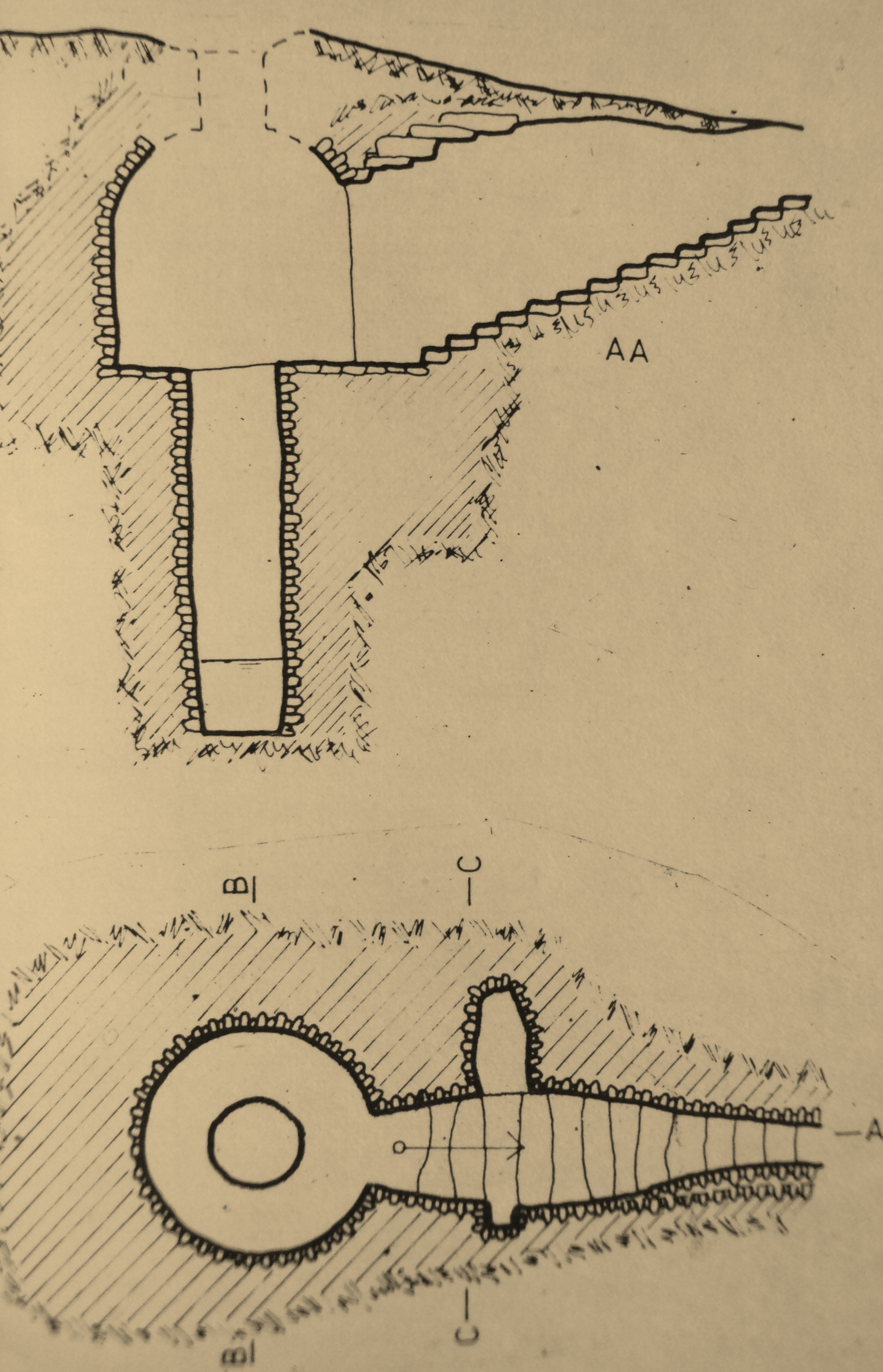 Scheme 2 Nurag Garlo BG